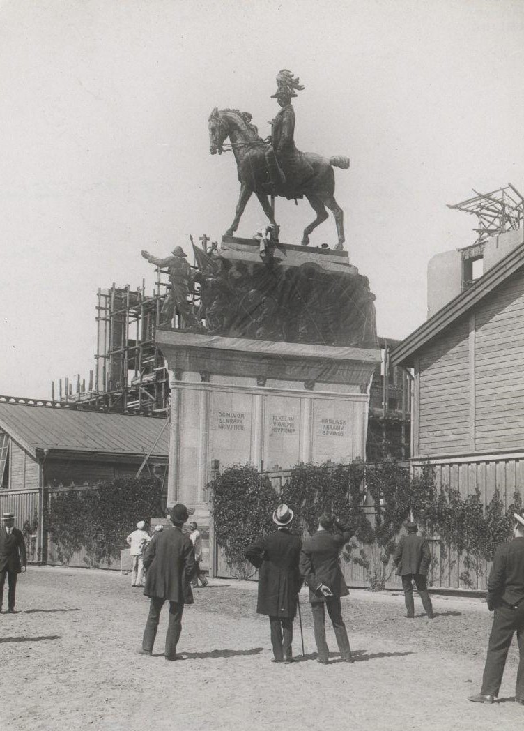 Wooden model of the equestrian statue of Christian IX at Christiansborg Ridebane in Copenahgen, Denmark. The third Christiansborg under construction in the background.